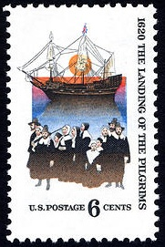 Pilgrims landing and settlement at Plymouth, Massachusetts was commemorated with a 6-cent stamp marking on the 350th anniversary, November 21, 1970.